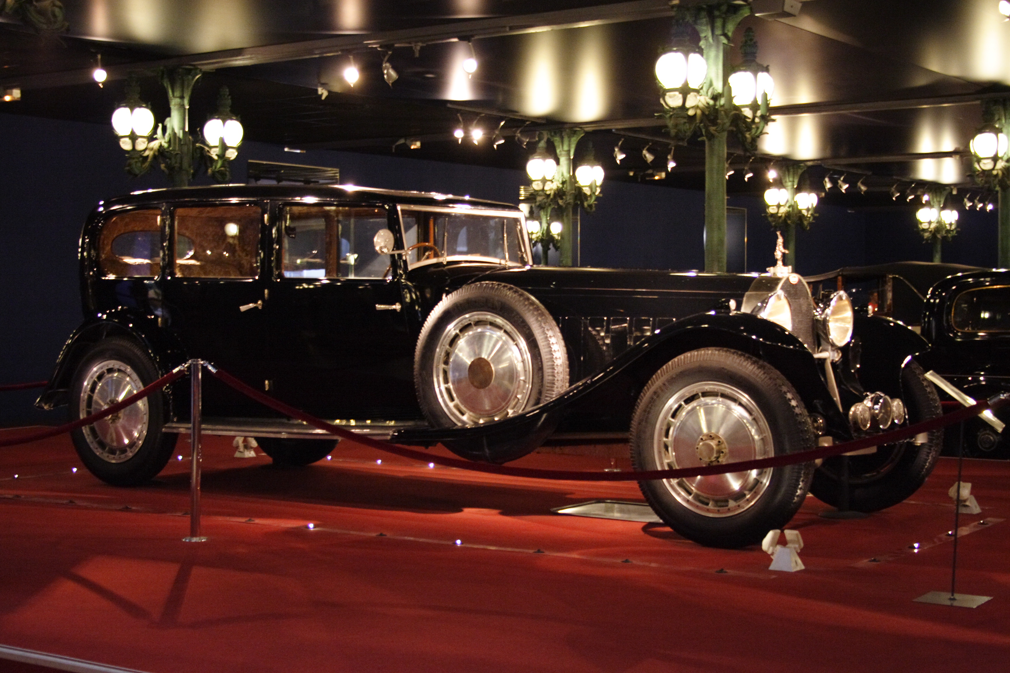 Bugatti Limousine Type 41 1933 at the Musée National de l'Automobil(Mulhouse, France)